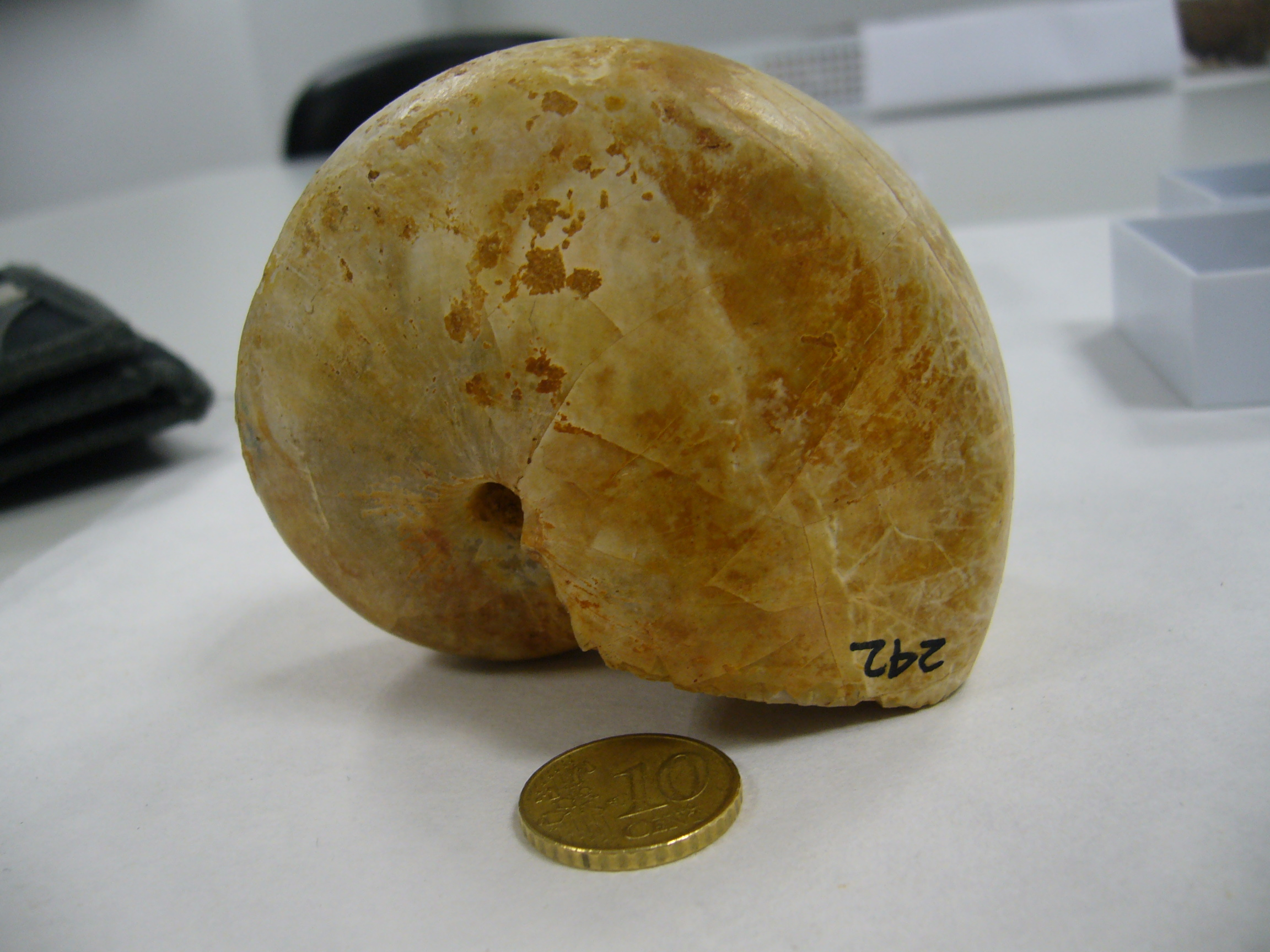 Nautilus sp. fossil (Middle Jurassic: Callovian) founded in Madagascar, in a laboratory of practices of the Faculty of Sciences of the University of Corunna.